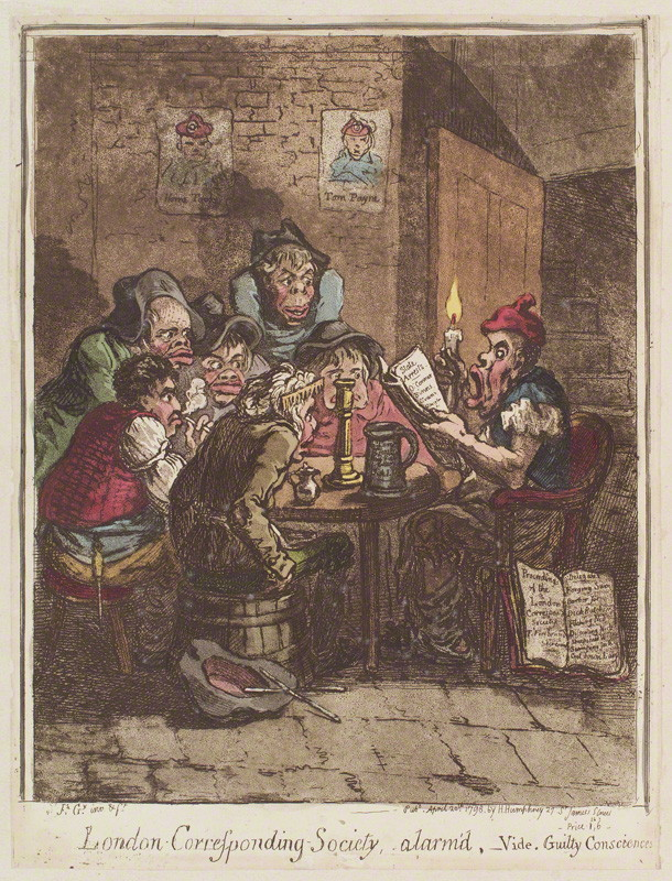 by James Gillray, published by Hannah Humphrey, hand-coloured etching and aquatint, published 20 April 1798